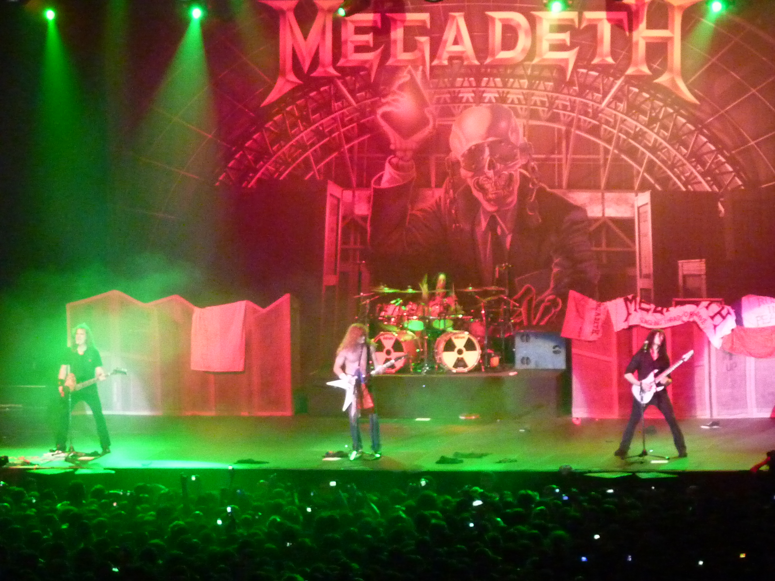 Megadeth live at a concert in Chile 2010.